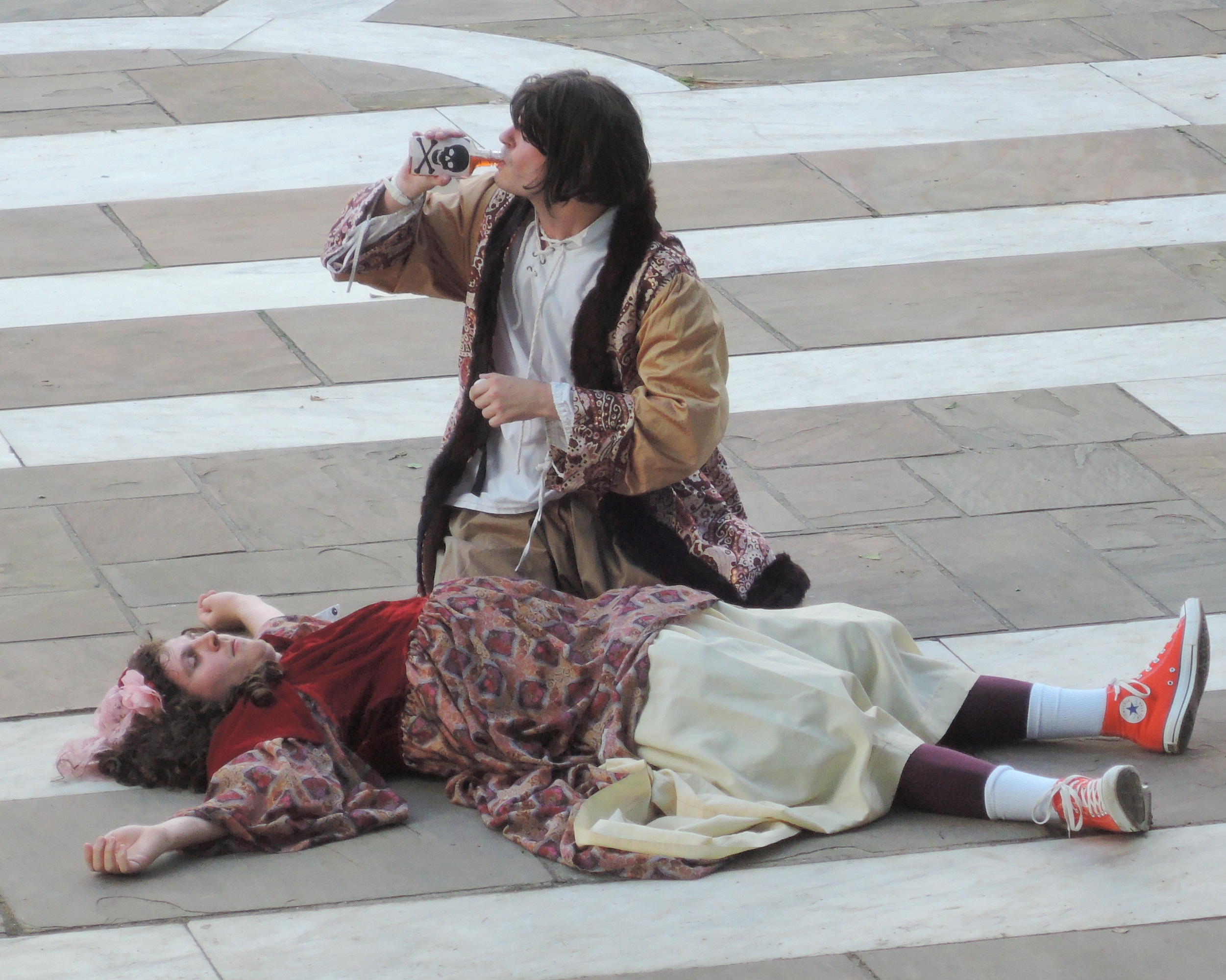 Romeo & Juliet and the poison in The Complete Works of William Shakespeare (Abridged).